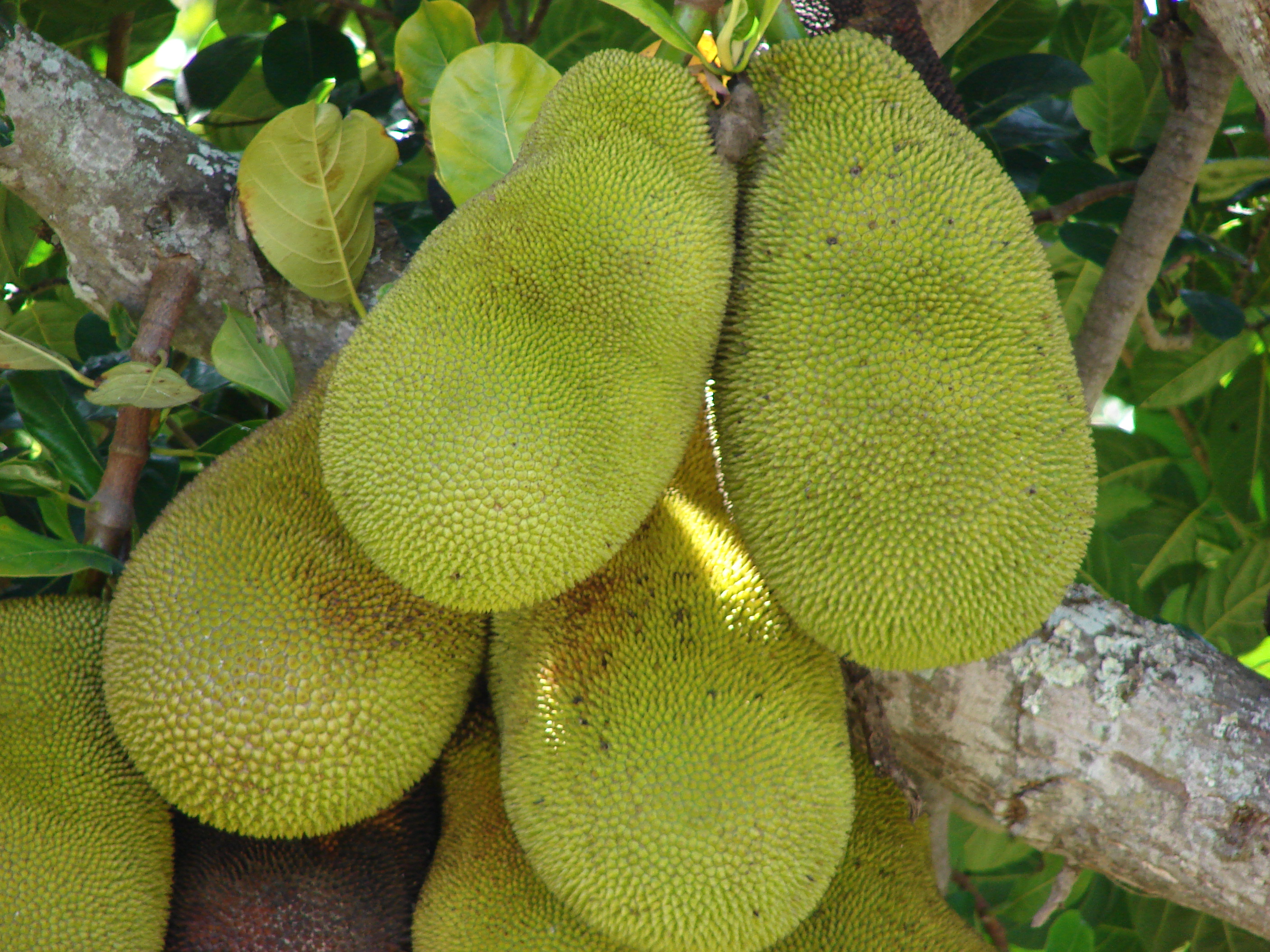 Artocarpus heterophyllus (fruit). Location: Lanai, Lanai City